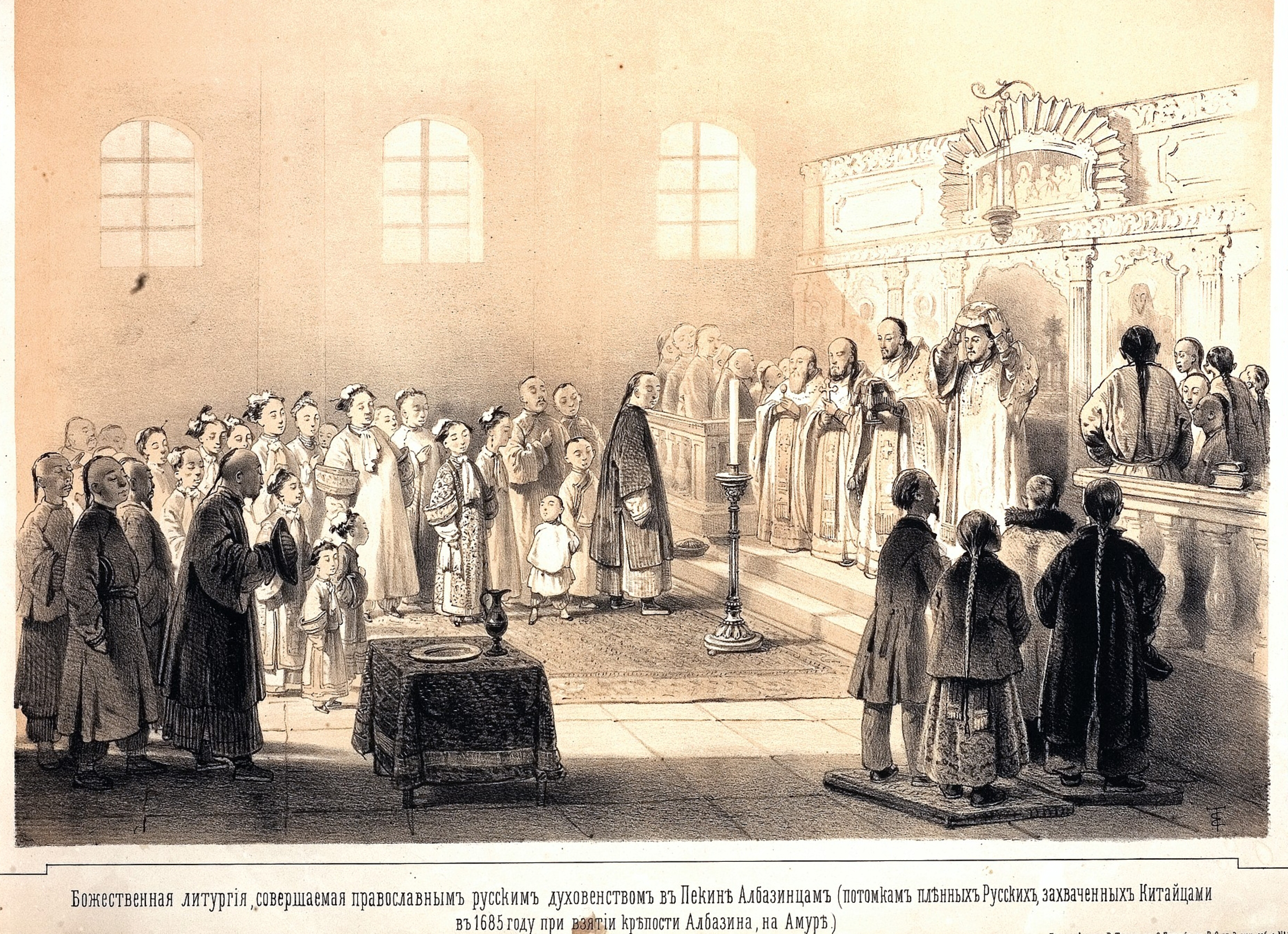 Liturgy for Albazinians in the Russian orthodox mission in Beijing